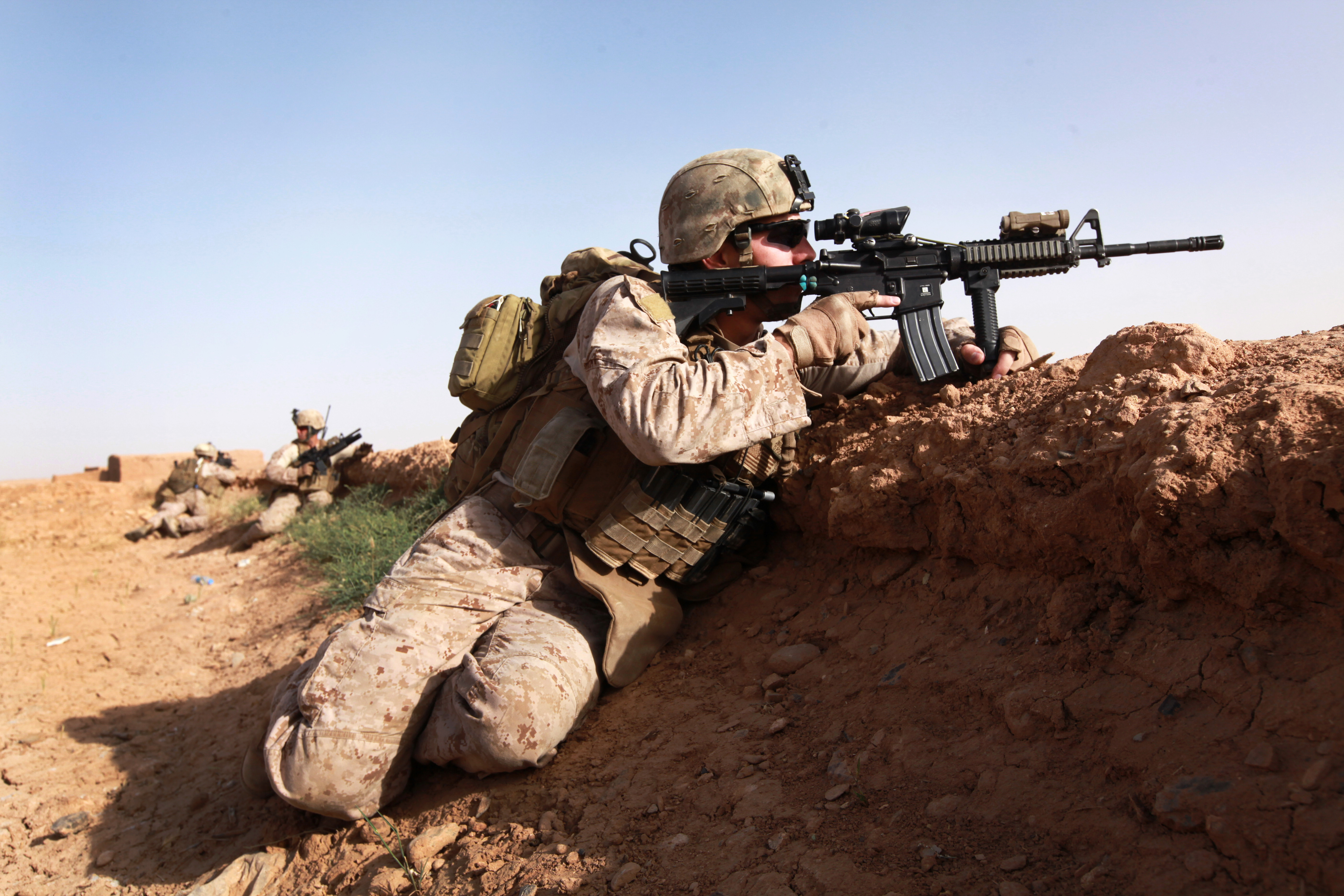 Navy Petty Officer 3rd Class, Jon McDowell, a hospital corpsman with 2nd Battalion, 9th Marine Regiment and native of Salcha, Alaska, scans the surrounding area for activity while providing security for Marines and members of the Afghan National Interdiction Unit as they conduct a counternarcotics raid in Helmand province, Afghanistan, June 4. (U.S. Marine Corps photo by Cpl. Isaac Lamberth) To read more visit